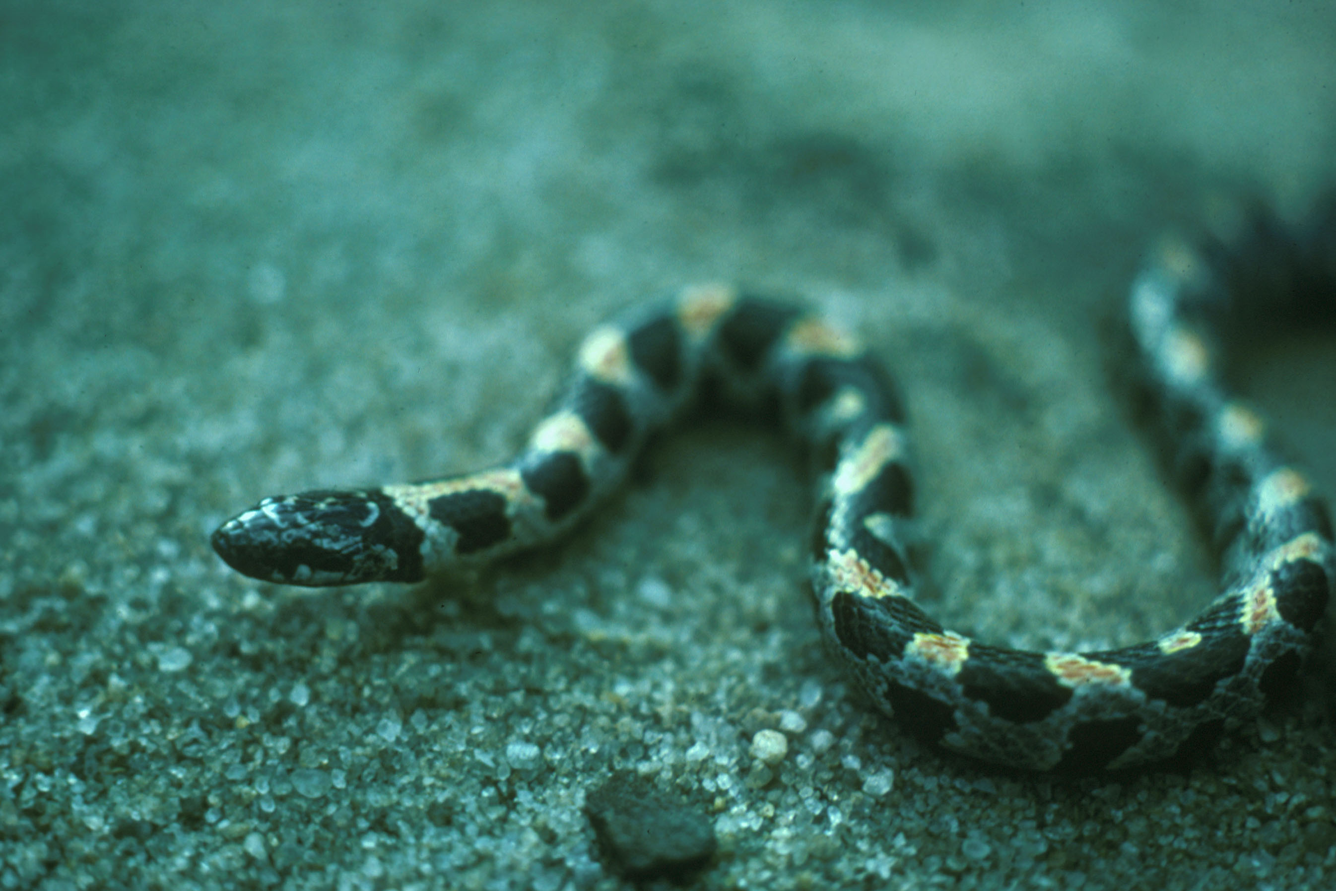 Short-tailed Snake (Stilosoma extenuatum)